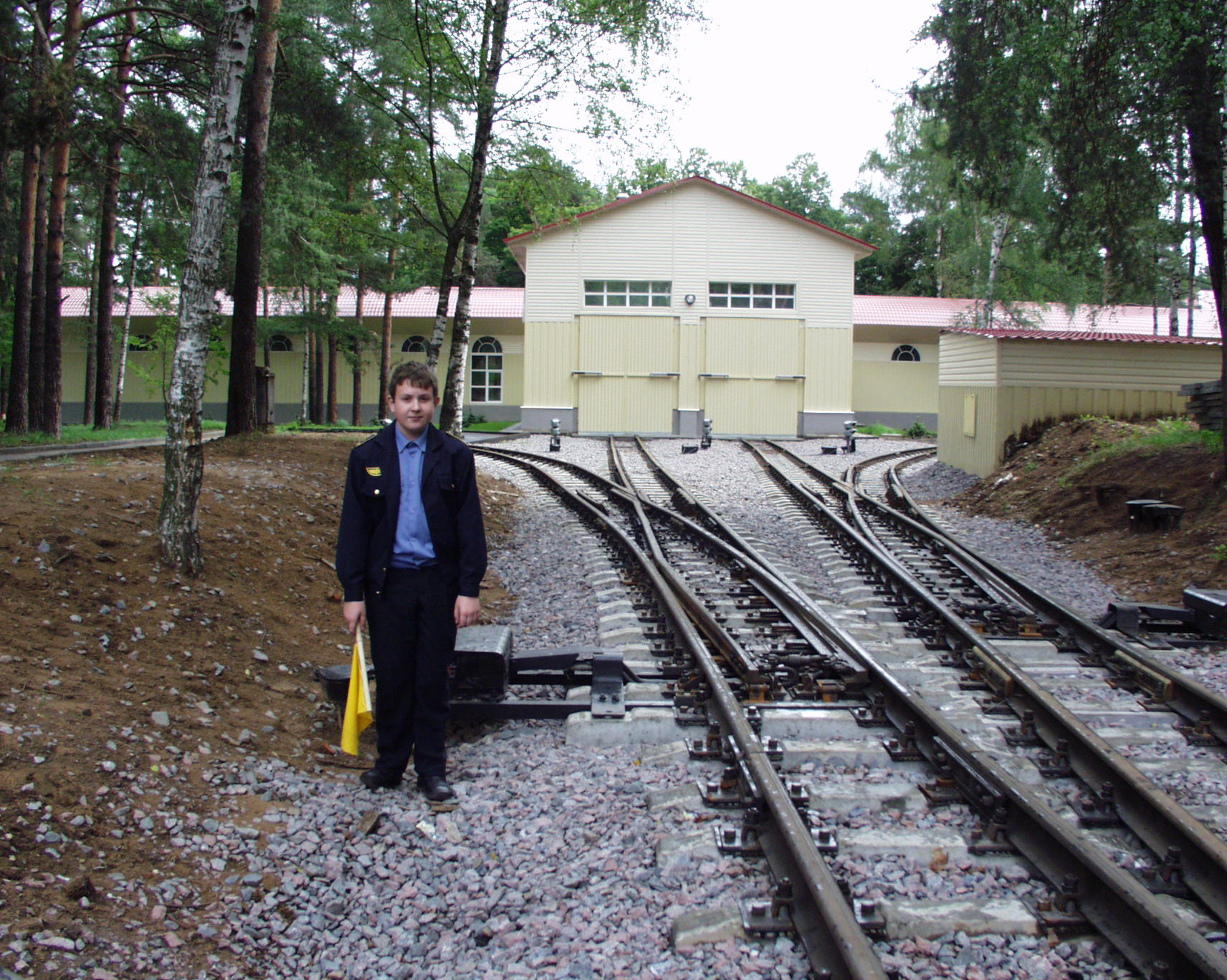 Kratovo children's railway.